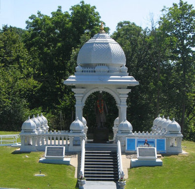 A Picture of Vivekananda Statue on the temple campus at The Hindu Temple of Greater Chicago in Lemont, Illinois (a suburb of Chicago)